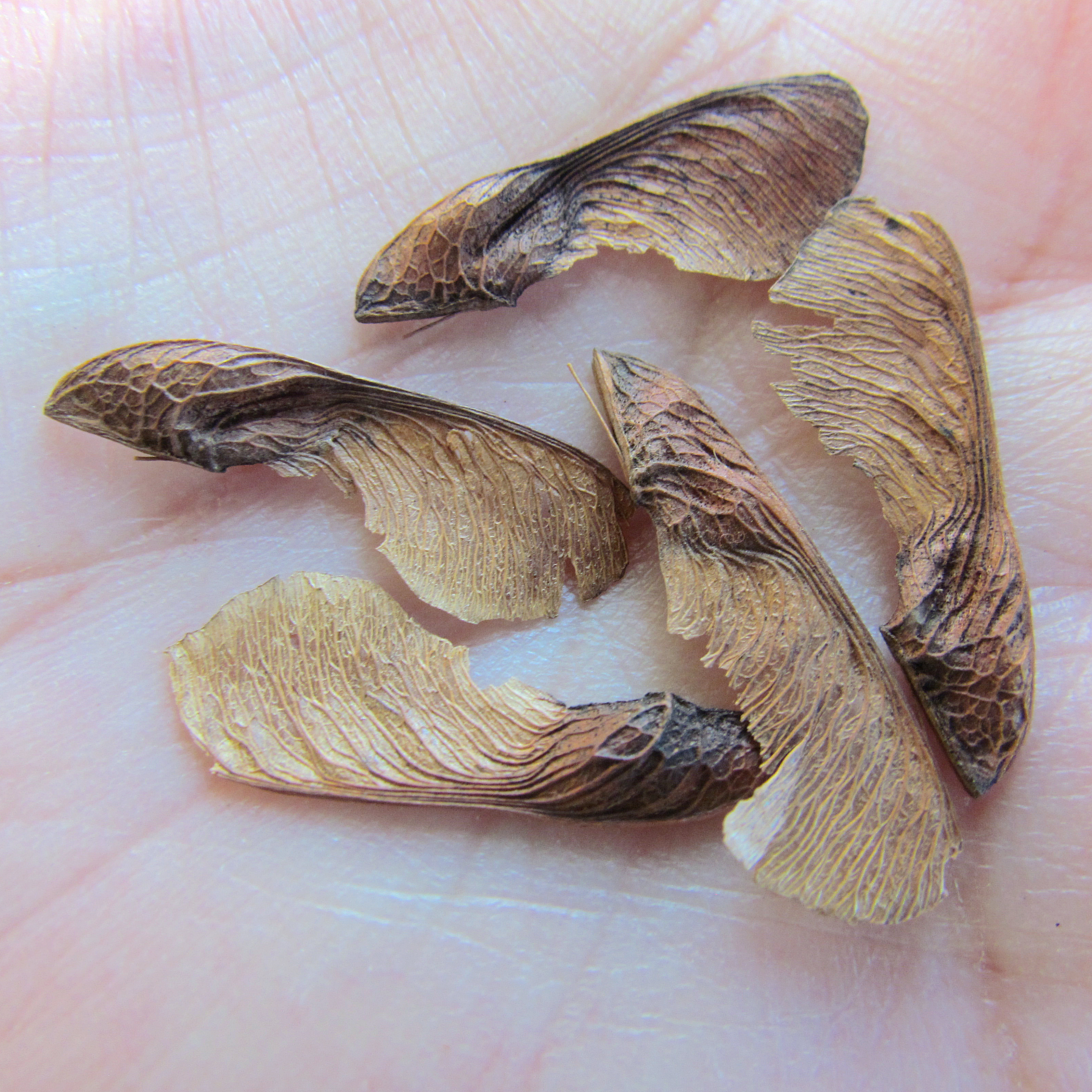 Acer ginnala fruits